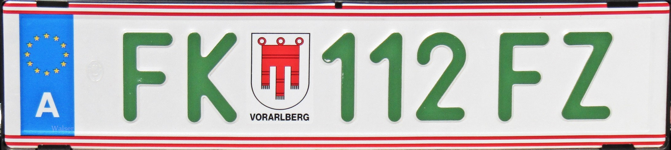 Austria license plate for electric vehicles